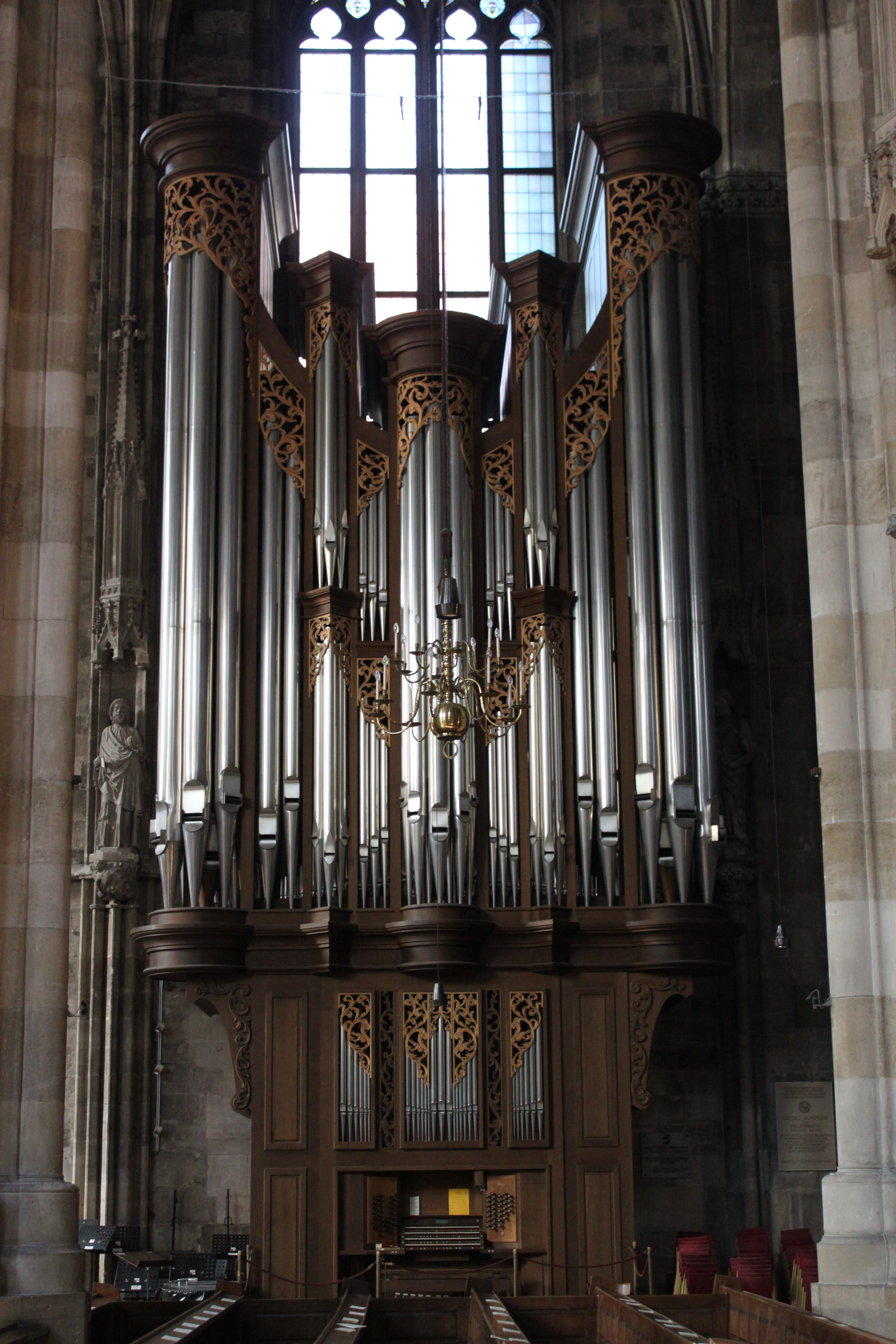 Organ of St. Stephen's cathedral, Vienna, built 1991 by Rieger Orgelbau